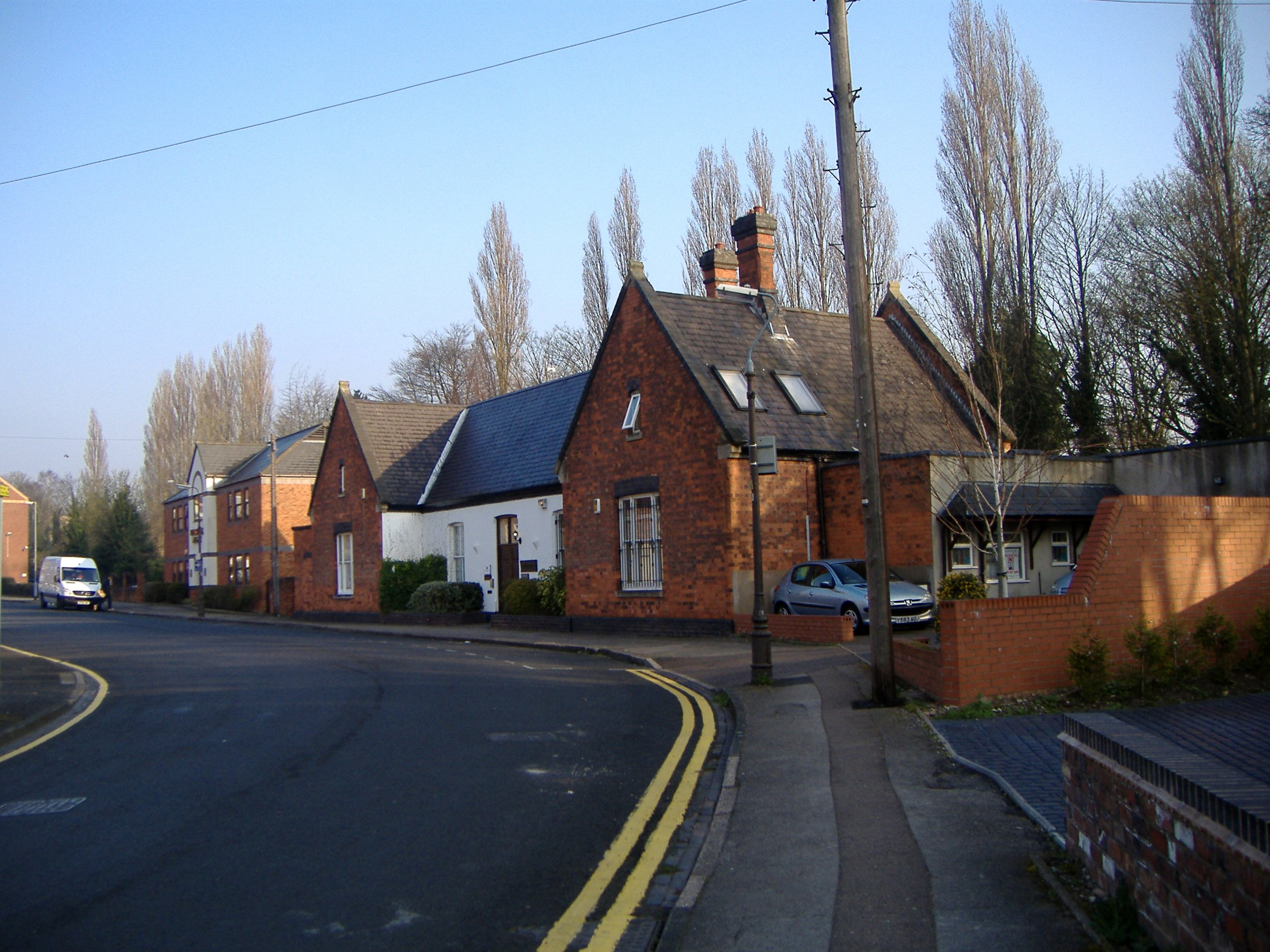 Sutton Town railway station is a disused railway station on the freight-only Sutton Park Line in Sutton Coldfield, Birmingham, England. It was closed in 1924 after being opened in 1876. It was converted into offices. It is located on Midland Drive.